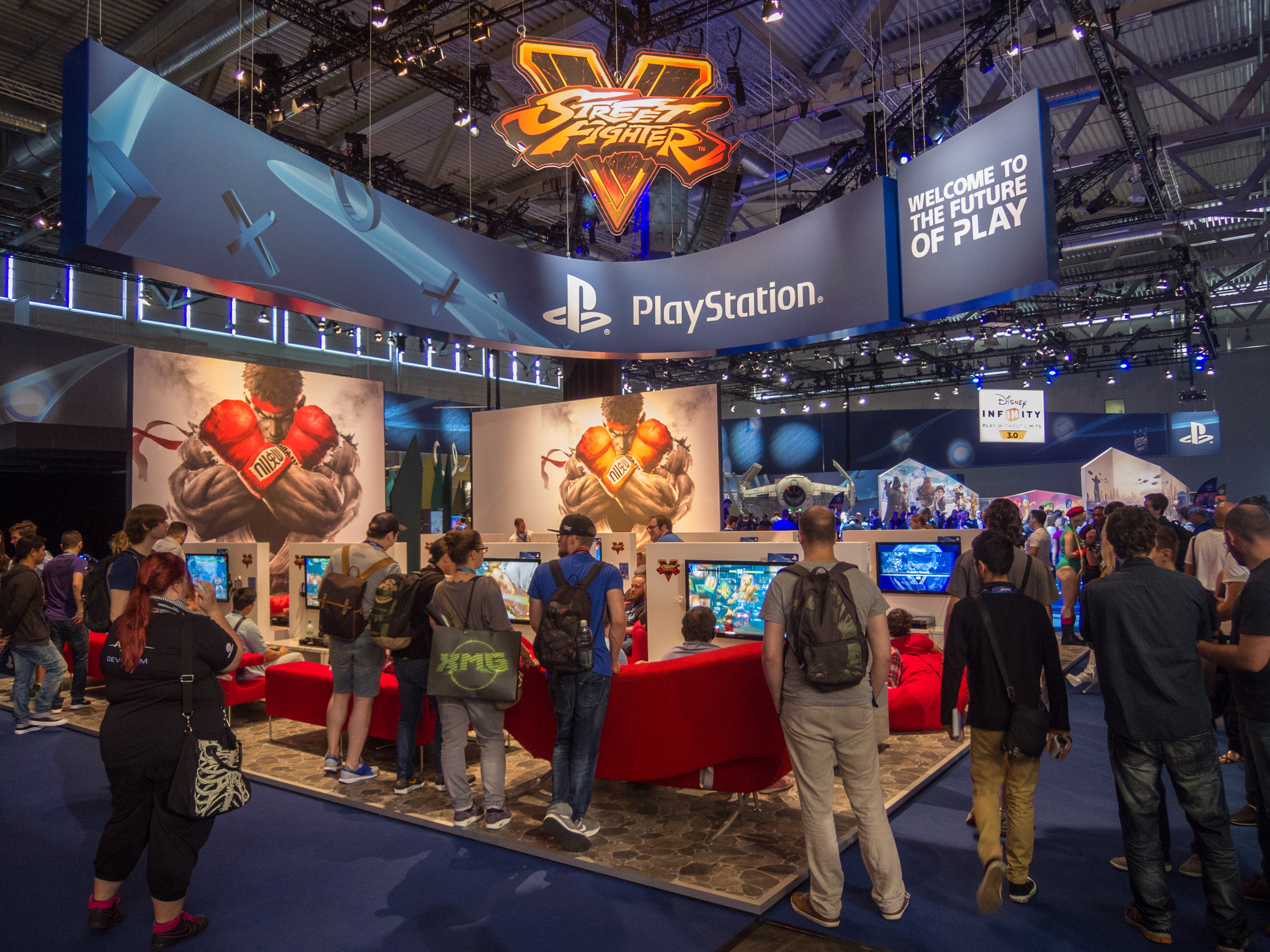 500px provided description: Gamescom Cologne 20151230 Jpg [#travel ,#nikon ,#trip ,#computer ,#fair ,#cologne ,#gaming ,#messe ,#geotagged ,#gamer ,#gamescom ,#2015 ,#k?ln ,#allgemein ,#gamescom2015]